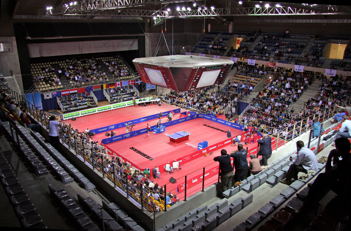 Country Hall du Sart Tilman (Home of Liège Basket) Author : Jacques Renier Date taken : 22 OCT 2005 Place : city of Liège, Belgium Personal picture, I set it "public domain".